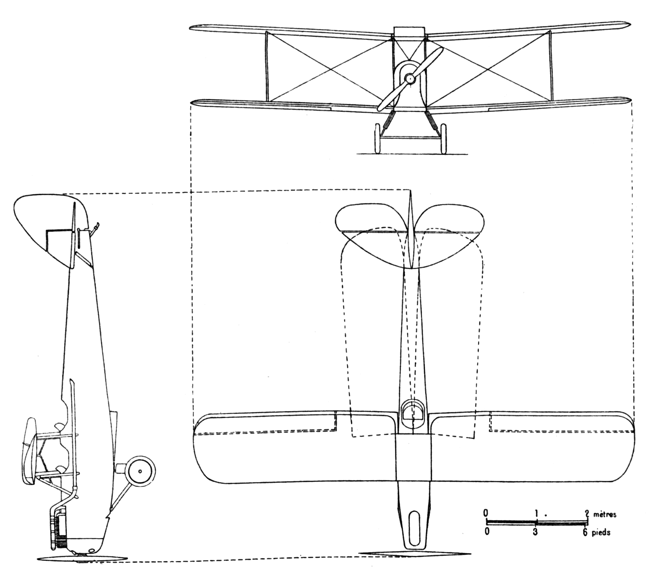 De Havilland DH.60 Cirrus Moth 3-view drawing from L'Aéronautique May,1927